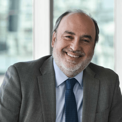 Official photo of Ramón Zelaya as Undersecretary of Fisheries and Aquaculture in 2019